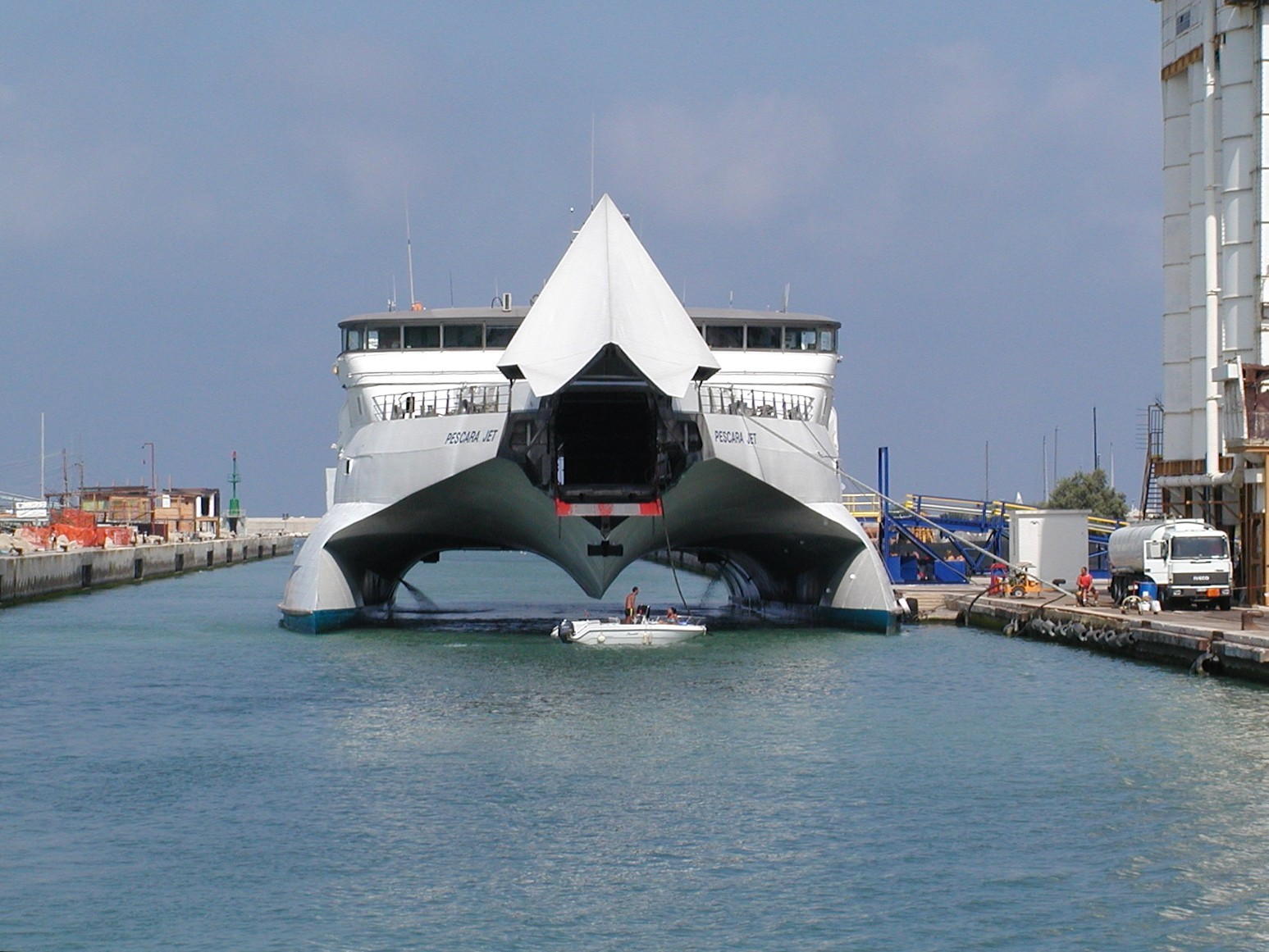 Front view of the Pescara Jet in 2004